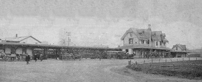 The Asbury Park station of the New York and Long Branch Railroad, ca. 1908. The station also served the adjacent Ocean Grove seashore resort.